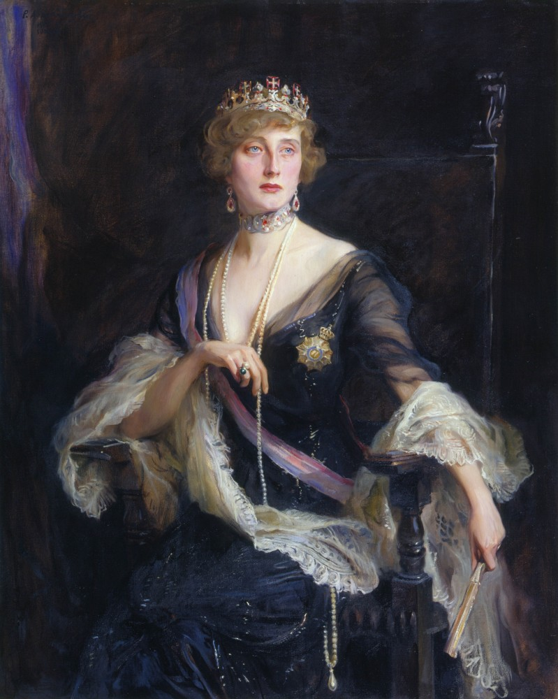 Queen Augusta Victoria of Portugal, née Princess Auguste Viktoria von Hohenzollern